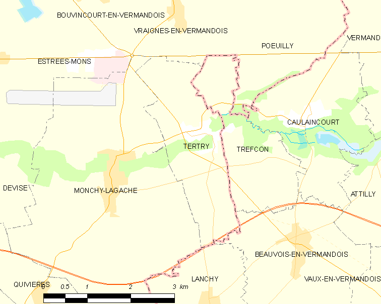 Map of French municipality Tertry